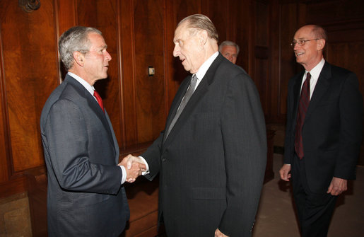 President George W. Bush (left) meets with the leadership of The Church of Jesus Christ of Latter-day Saints during his visit to Salt Lake City. Bush shakes hands with President Thomas S. Monson, who is joined by Henry B. Eyring, First Counselor..